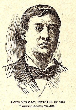 James McNally, "King of the New York green-goods business"